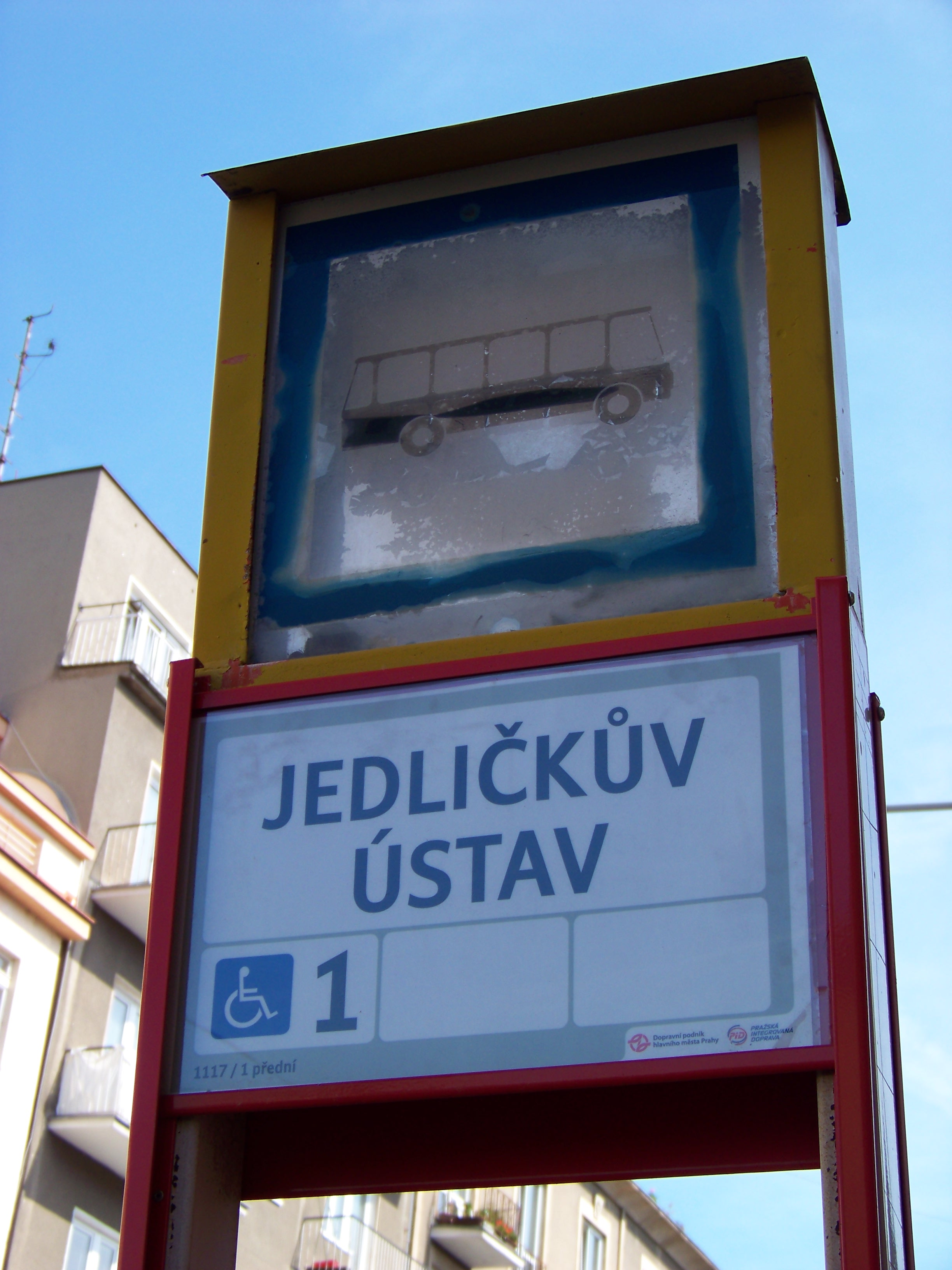 Prague-Nusle-Pankrác, the Czech Republic. Mikuláše z Husi street, bus stop Jedličkův ústav.